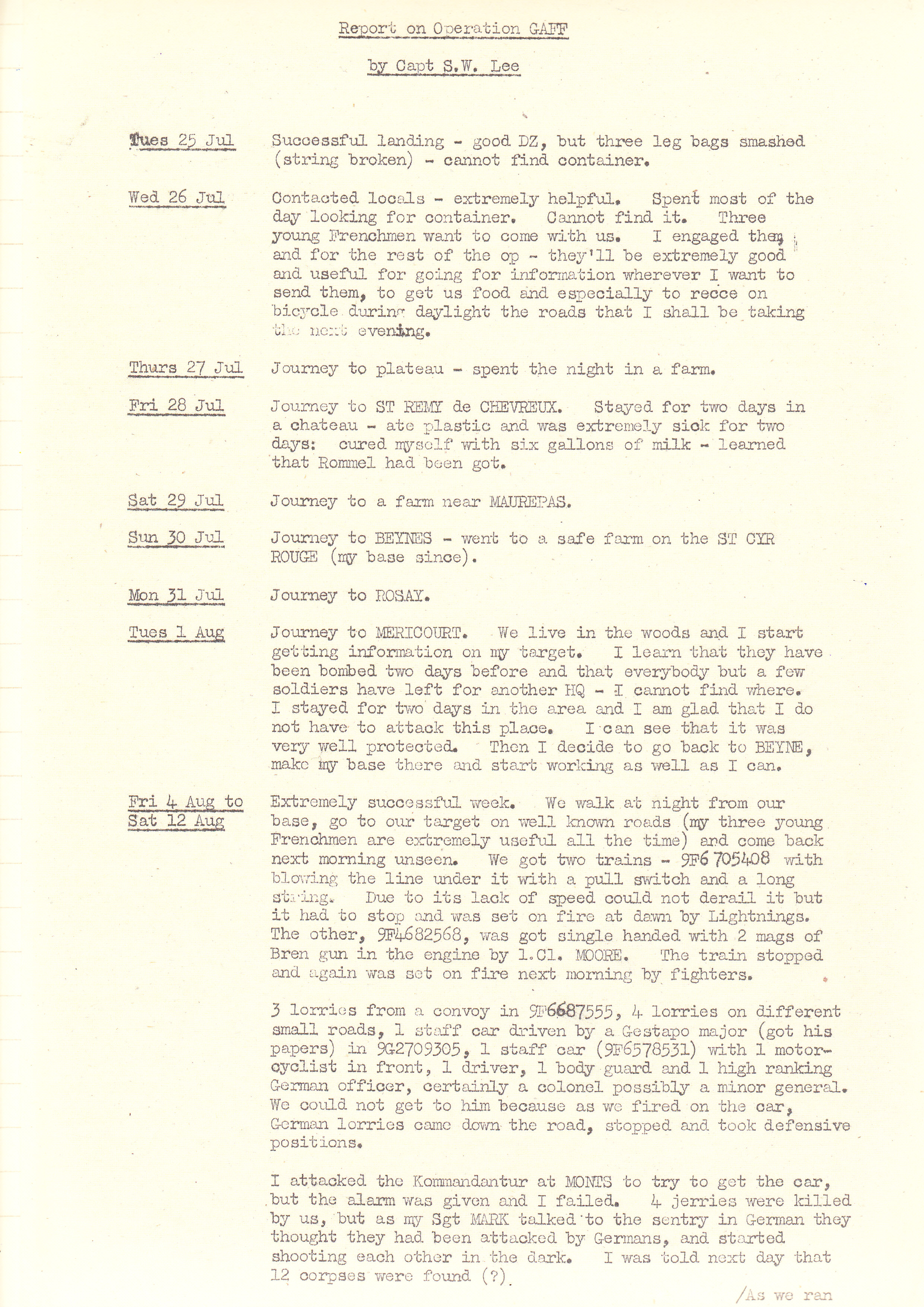 Op GAFF - Post-op report - Page 1